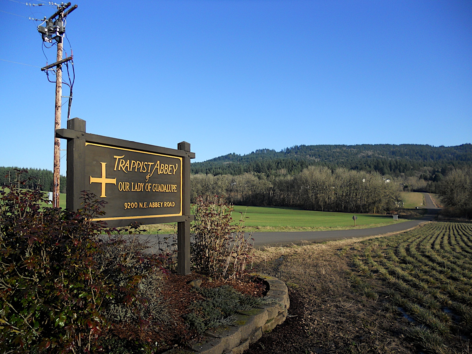 entrance road to Our Lady of Guadalupe Trappist Abbey near Lafayette, Oregon